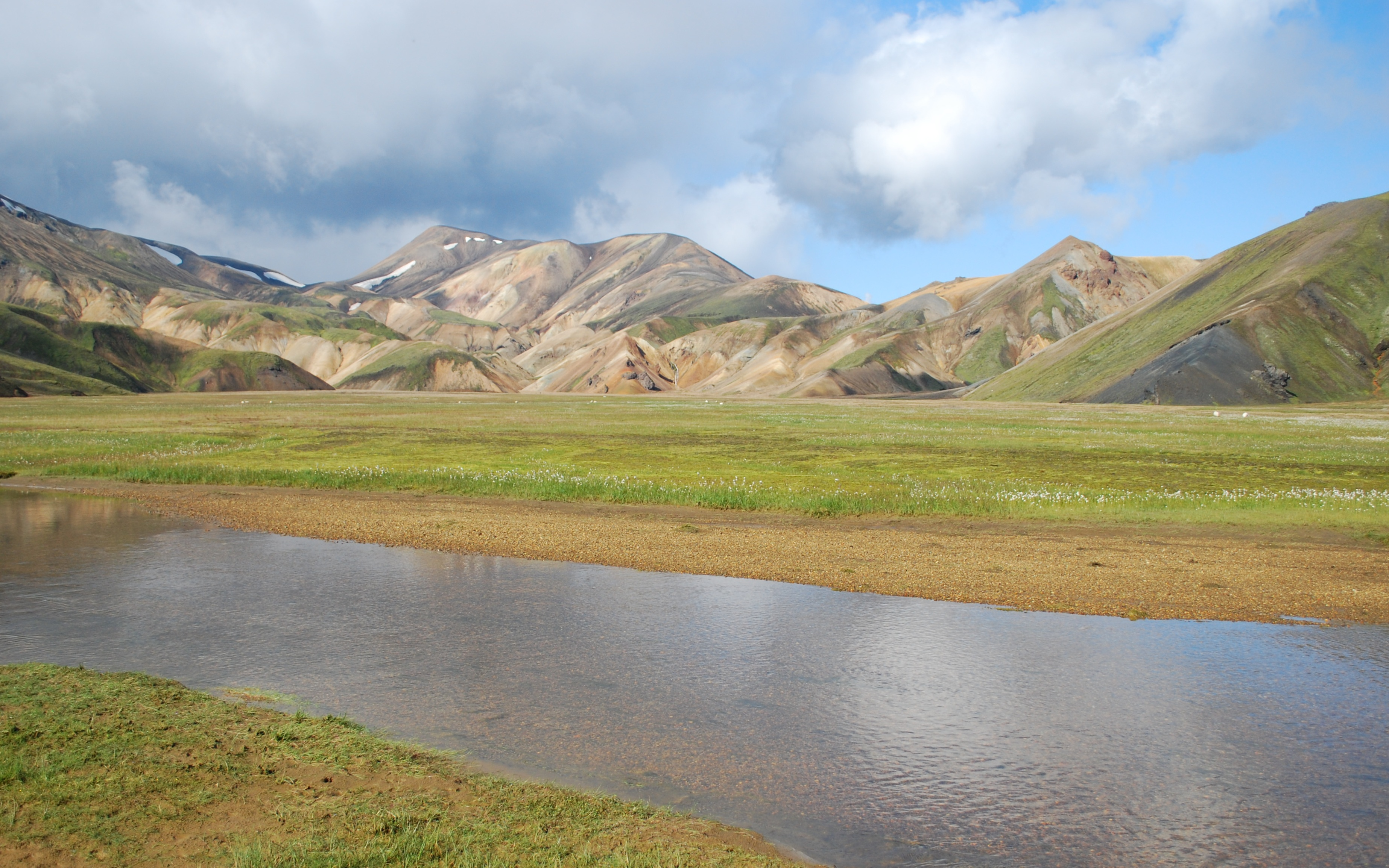 Landmannalaugar area as seen from Laugavegur hiking trail, Iceland